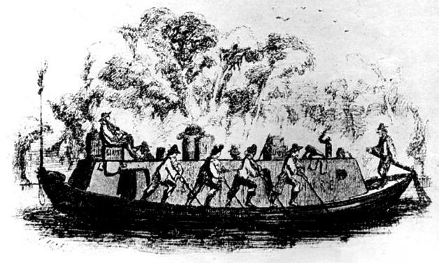 Keelboat on Ohio River, late 18th century